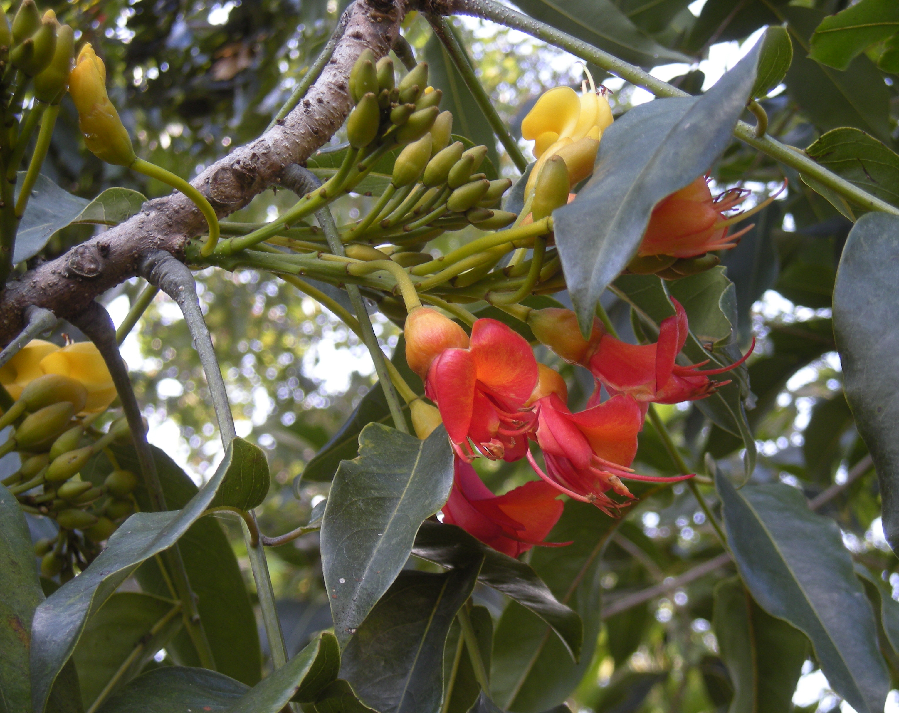 Castanospermum australe flowers.